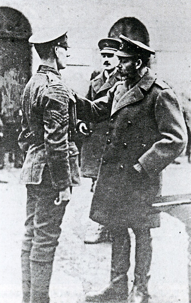 Arthur Evans VC being decorated by the King George V